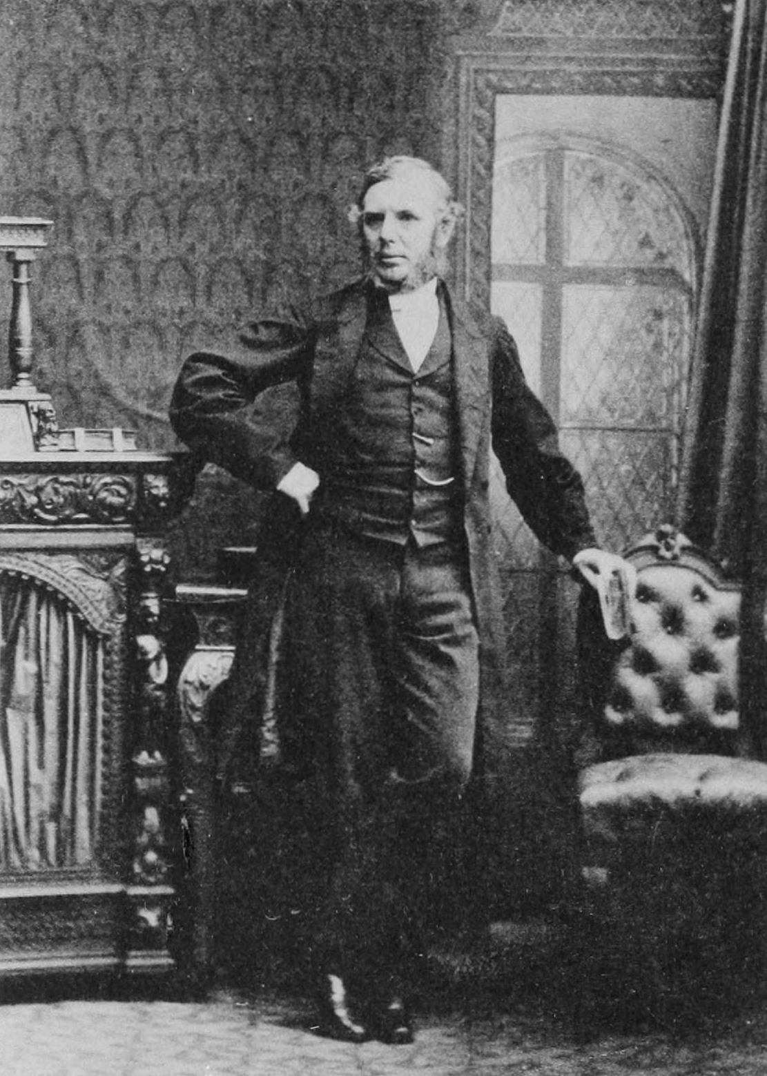 Reverend Henry Baker Tristram FRS (11 May 1822 – 8 March 1906)